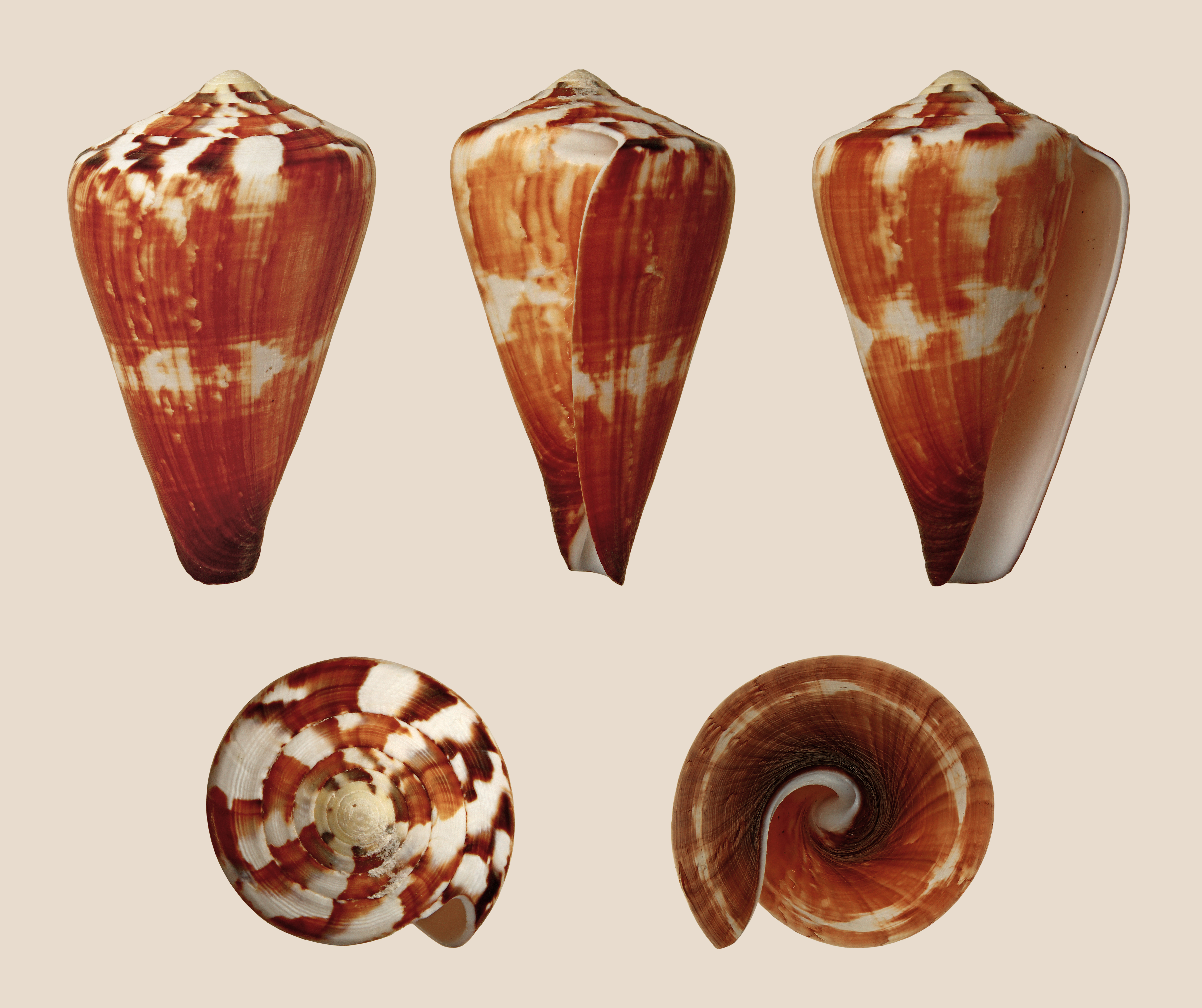 Flag Cone; Length 8.5 cm; Originating from the Indo-Pacific; Shell of own collection, therefore not geocoded. Dorsal, lateral (right side), ventral, back, and front view.